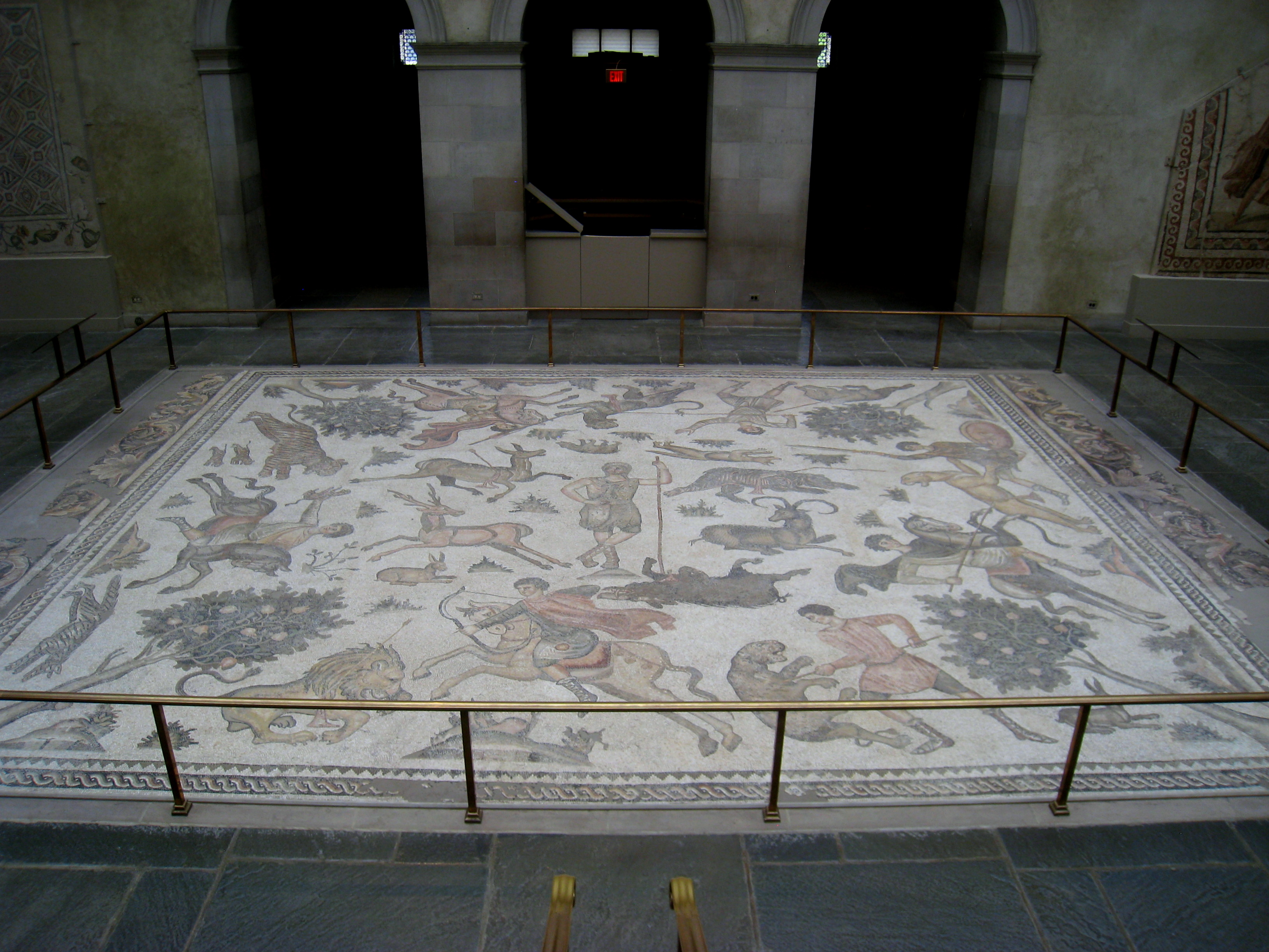 Antioch mosaics in the Worcester Art Museum, Worcester, Massachusetts, USA. The museum permits photography and does not restrict usage of the photographs.